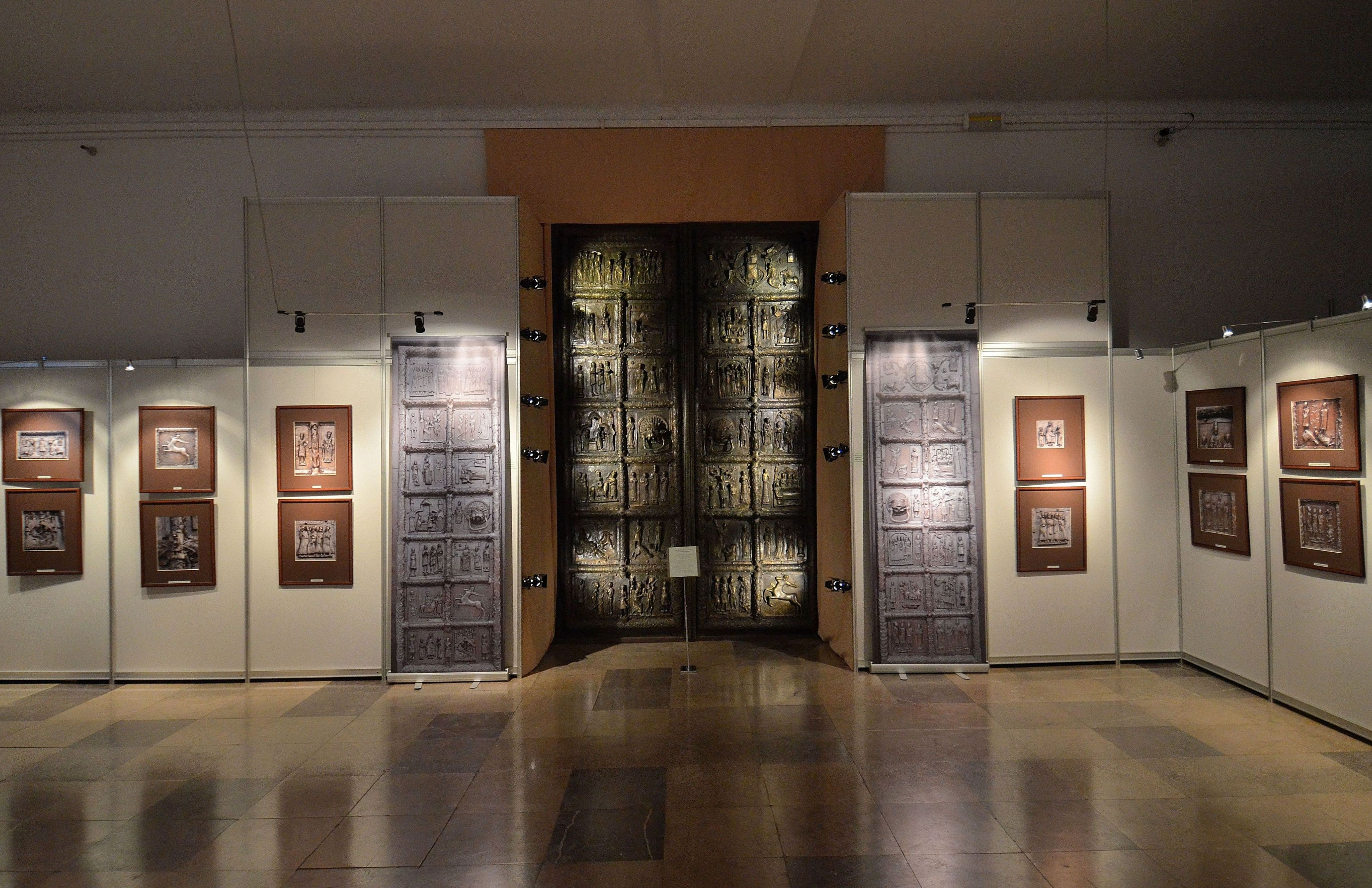 Replica of the Płock Door displayed in the State Archeological Museum in Warsaw